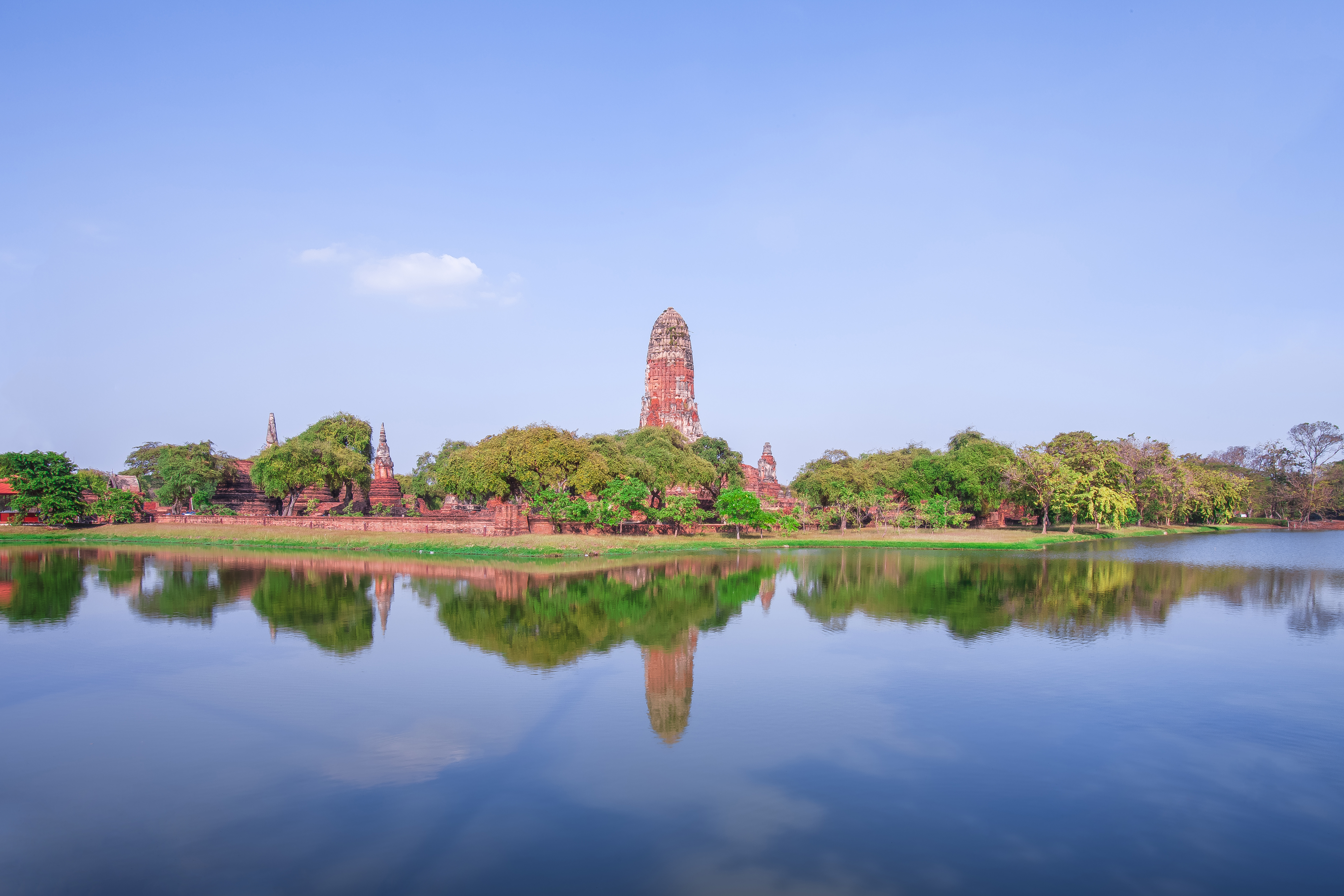 Wat Phra Ram (Temple of Holy Rama), Phra Nakhon Si Ayutthaya District, Phra Nakhon Si Ayutthaya Province, Thailand.